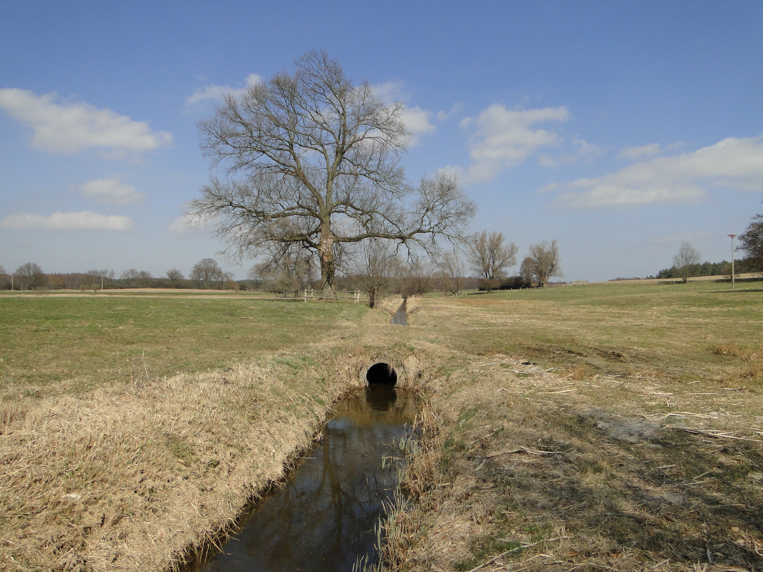 Jasenitz short before confluence into the Dobbertiner See in Hellberg, district Parchim, Mecklenburg-Vorpommern, Germany